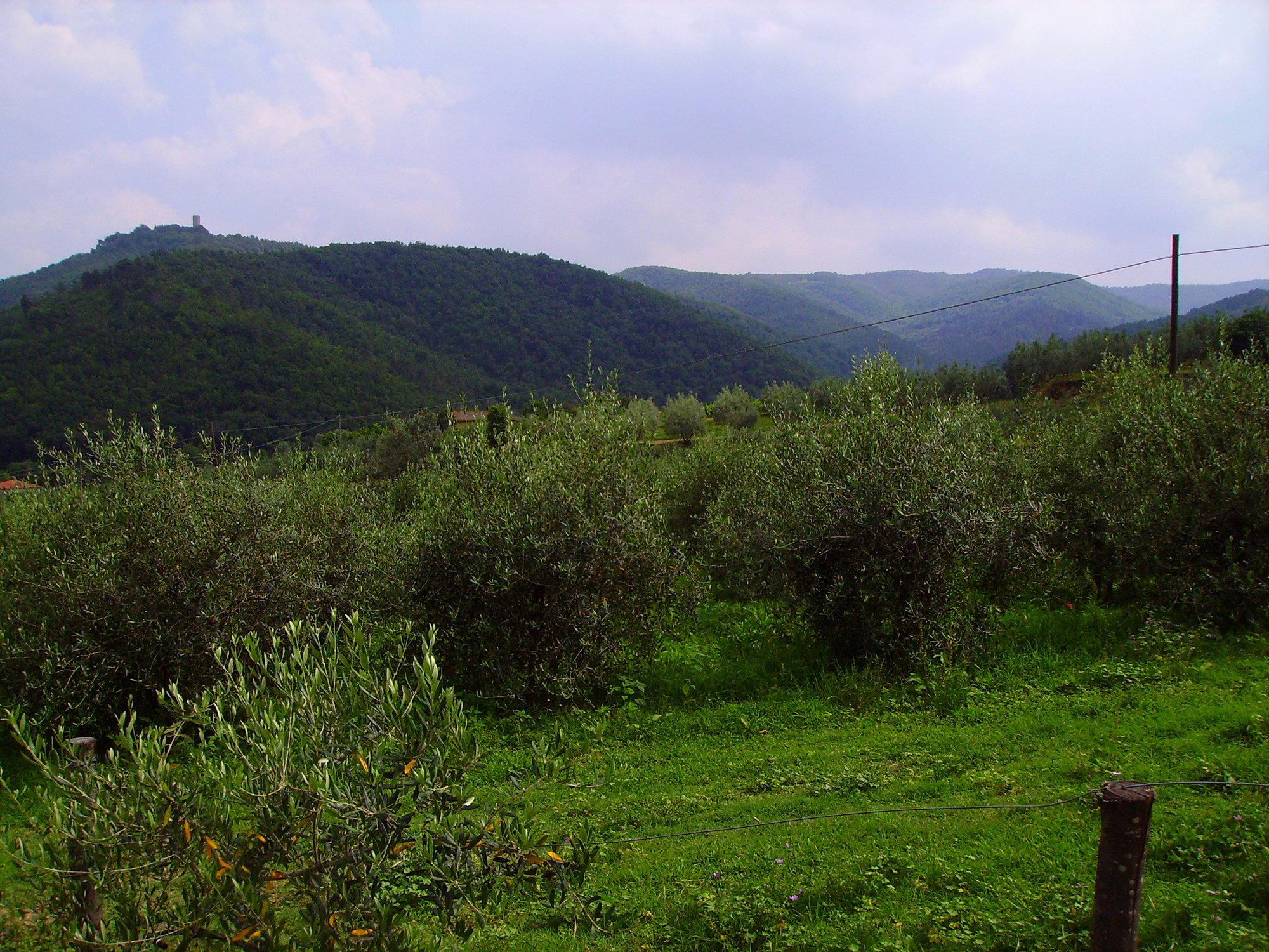 The farm of Le Muricce in Mercatale Valdarno, formerly owned by Mari Family of Montevarchi